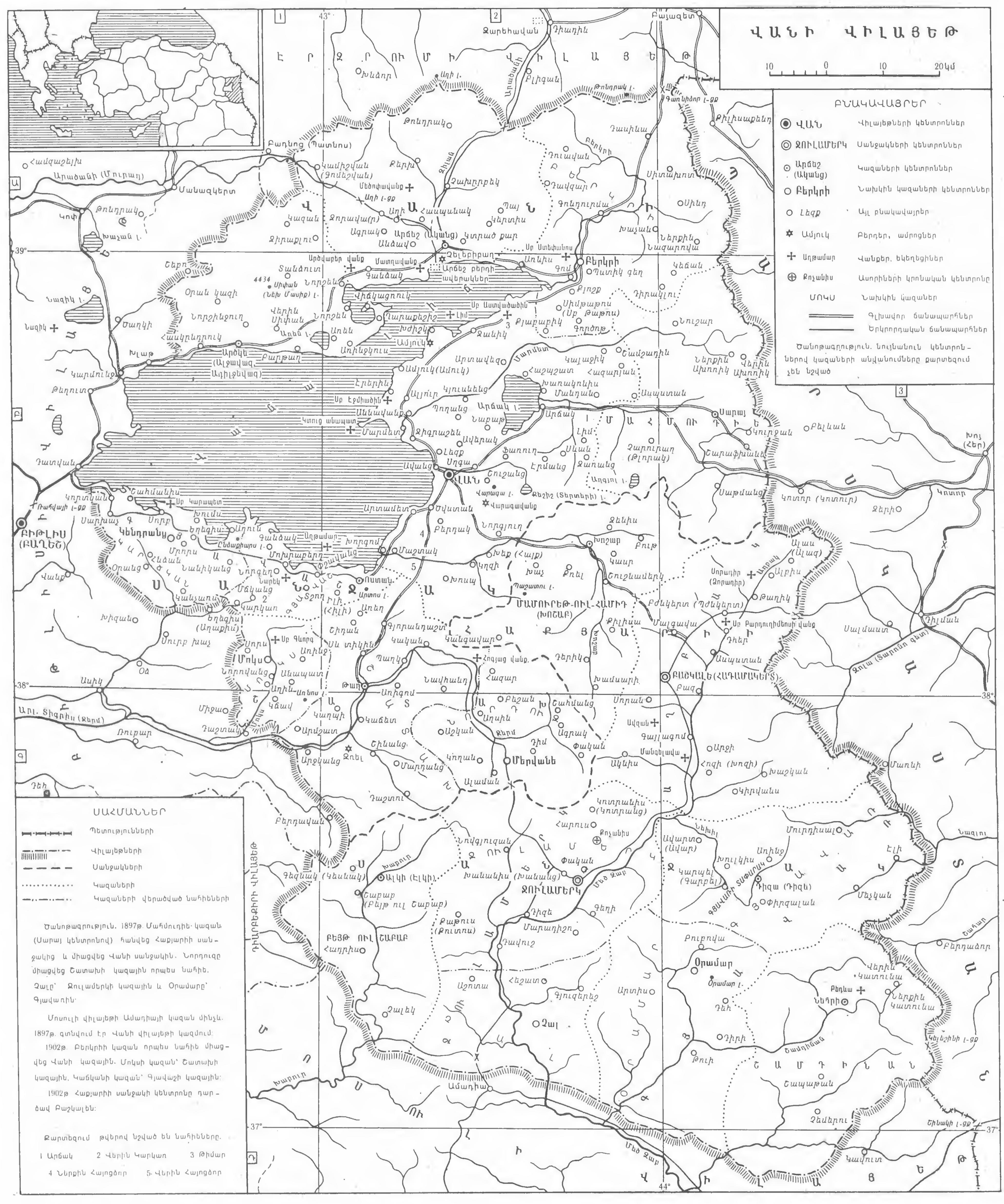 Van vilayet map in Armenian (This file got from "Soviet Armenian Encyclopedia" with "Creative Commons BY-SA 3.0" License.)